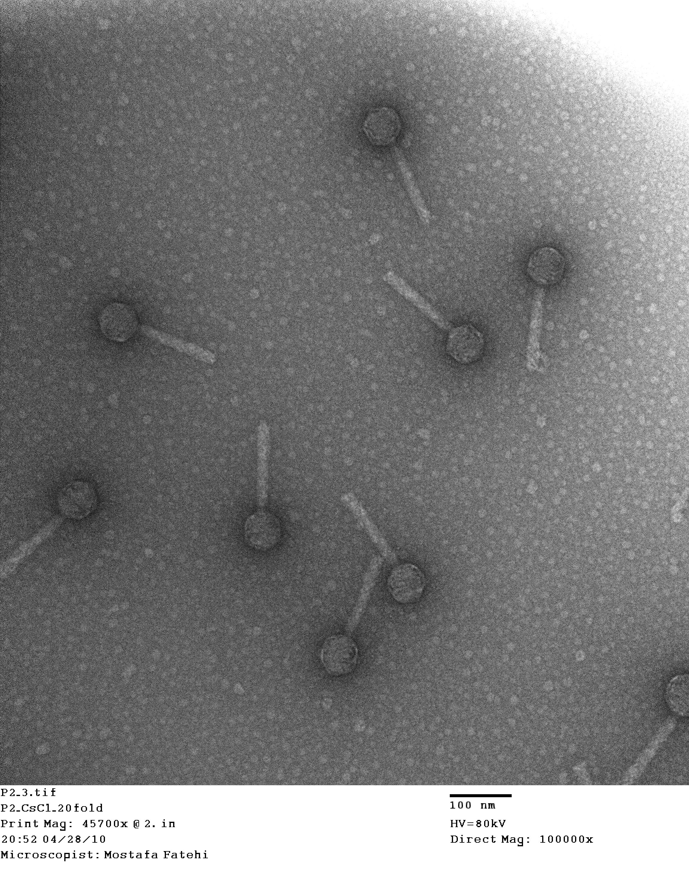 Bacteriophage P2 using Transmission Electron Microscope